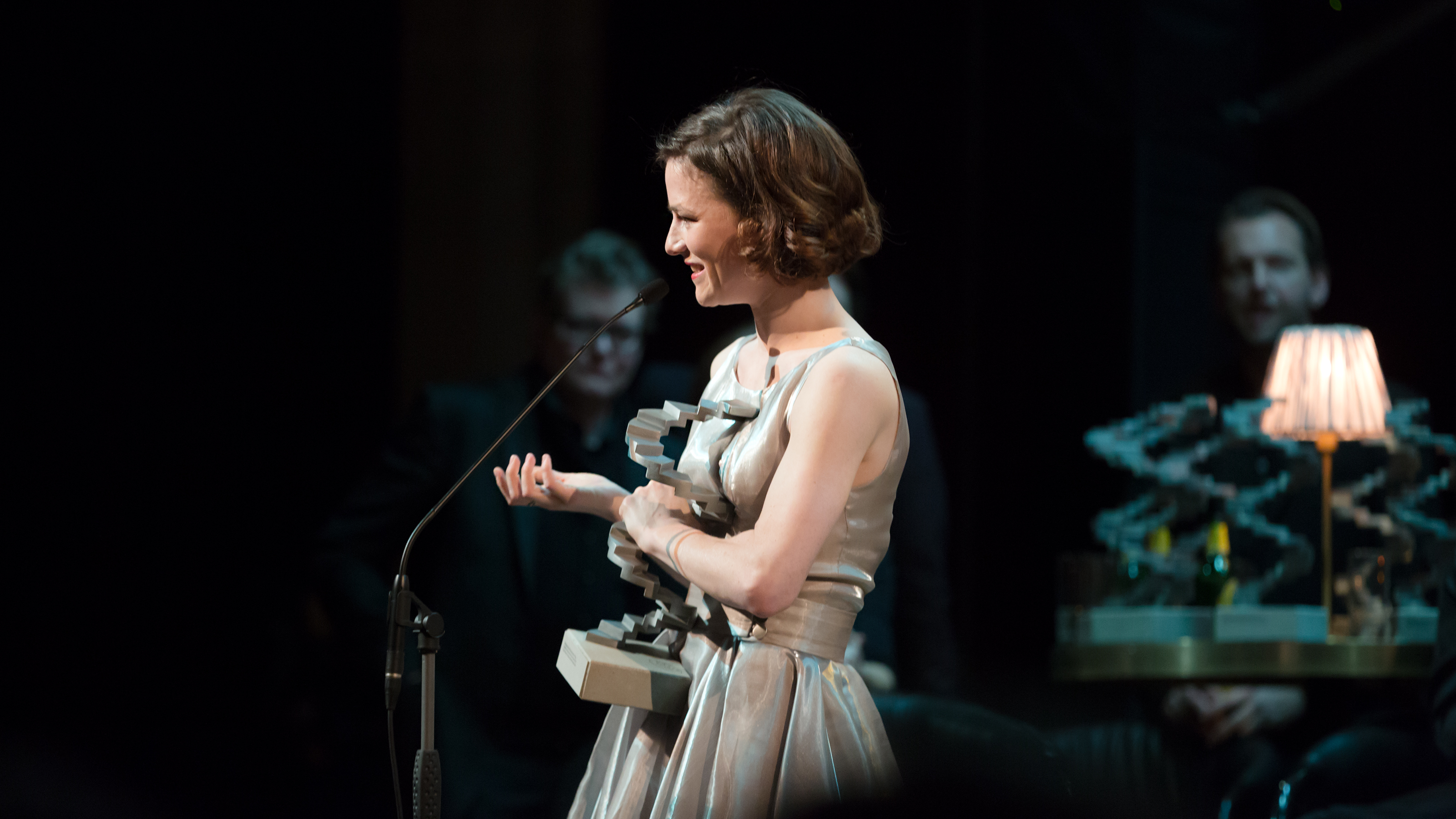 Austrian Film Awards 2017: Valerie Pachner, best actress in a leading role in Egon Schiele: Tod und Mädchen; Rathaus, Vienna, Austria.